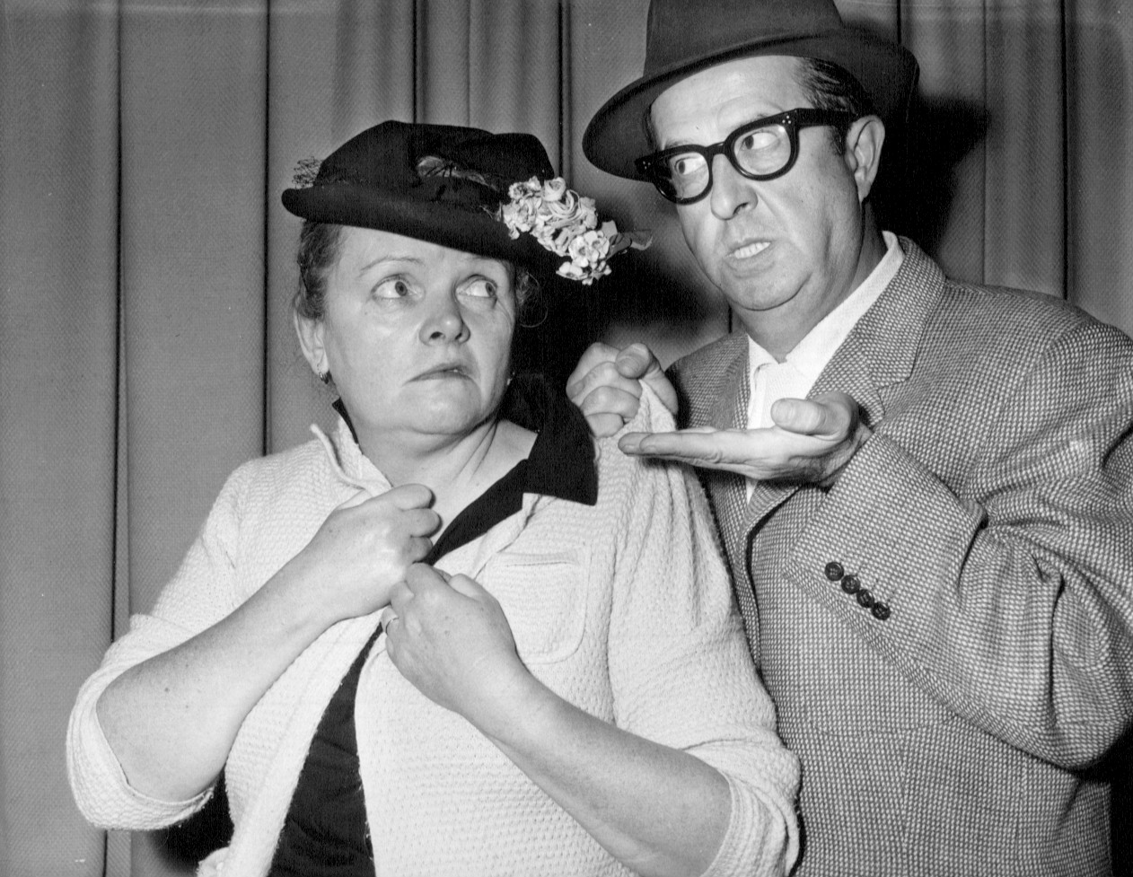 Photo of Pert Kelton and Phil Silvers performing in a CBS comedy special.